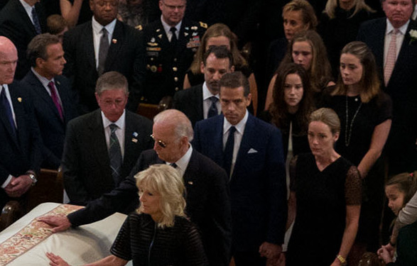 Vice President Joe Biden and his wife Dr. Jill Biden touch Beau Biden's casket following the procession during the funeral mass for Beau Biden at St. Anthony of Padua Roman Catholic in Wilmington, Del. June 6, 2015. (Official White House Photo by Pete Souza)